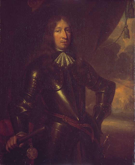 Willem Joseph baron van Ghent tot Drakenburgh, 1626-72